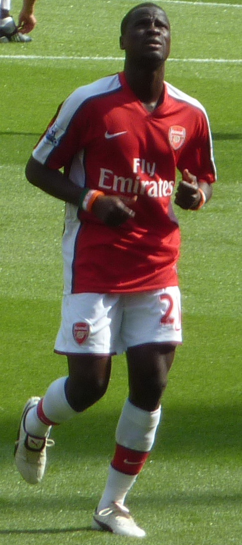 Emmanuel Eboué is an Ivorian football.